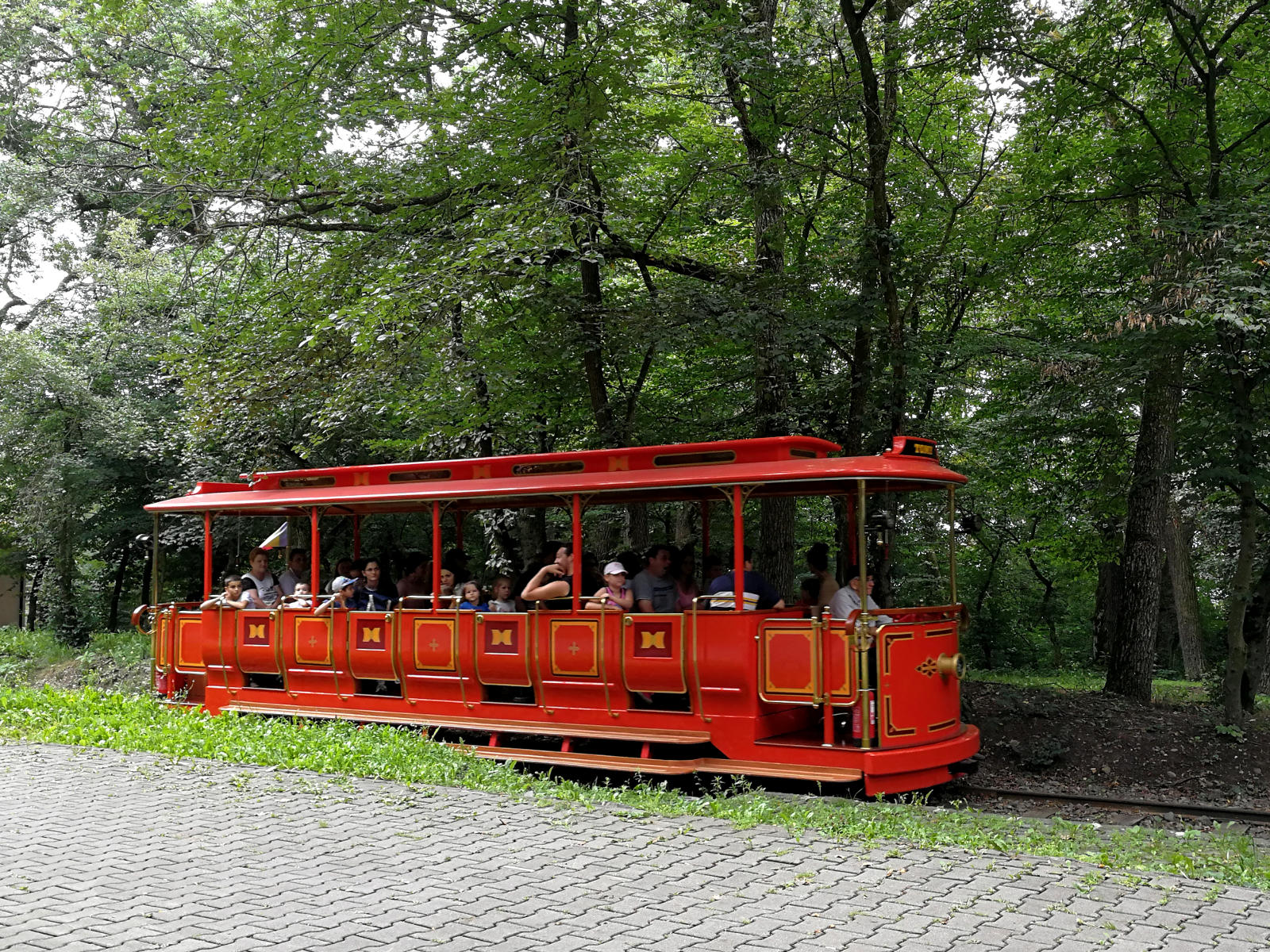 New children's railway vehicle on Cornesti hill, Tg. Mures; in use since 2016